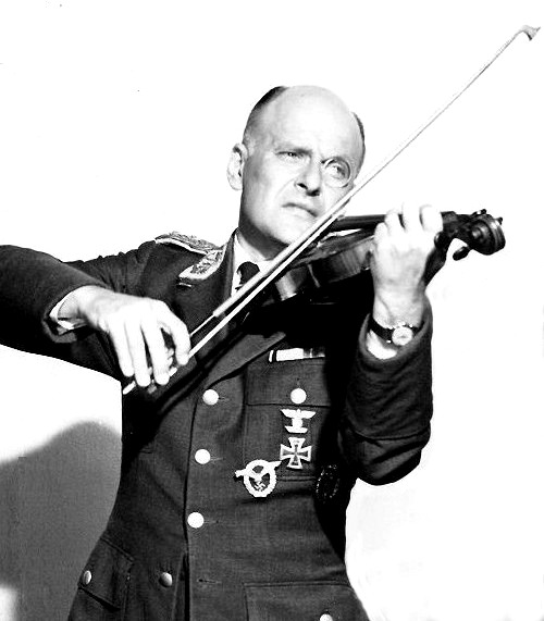 Cropped photo of Werner Klemperer as Colonel Klink from the sitcom Hogan's Heroes.